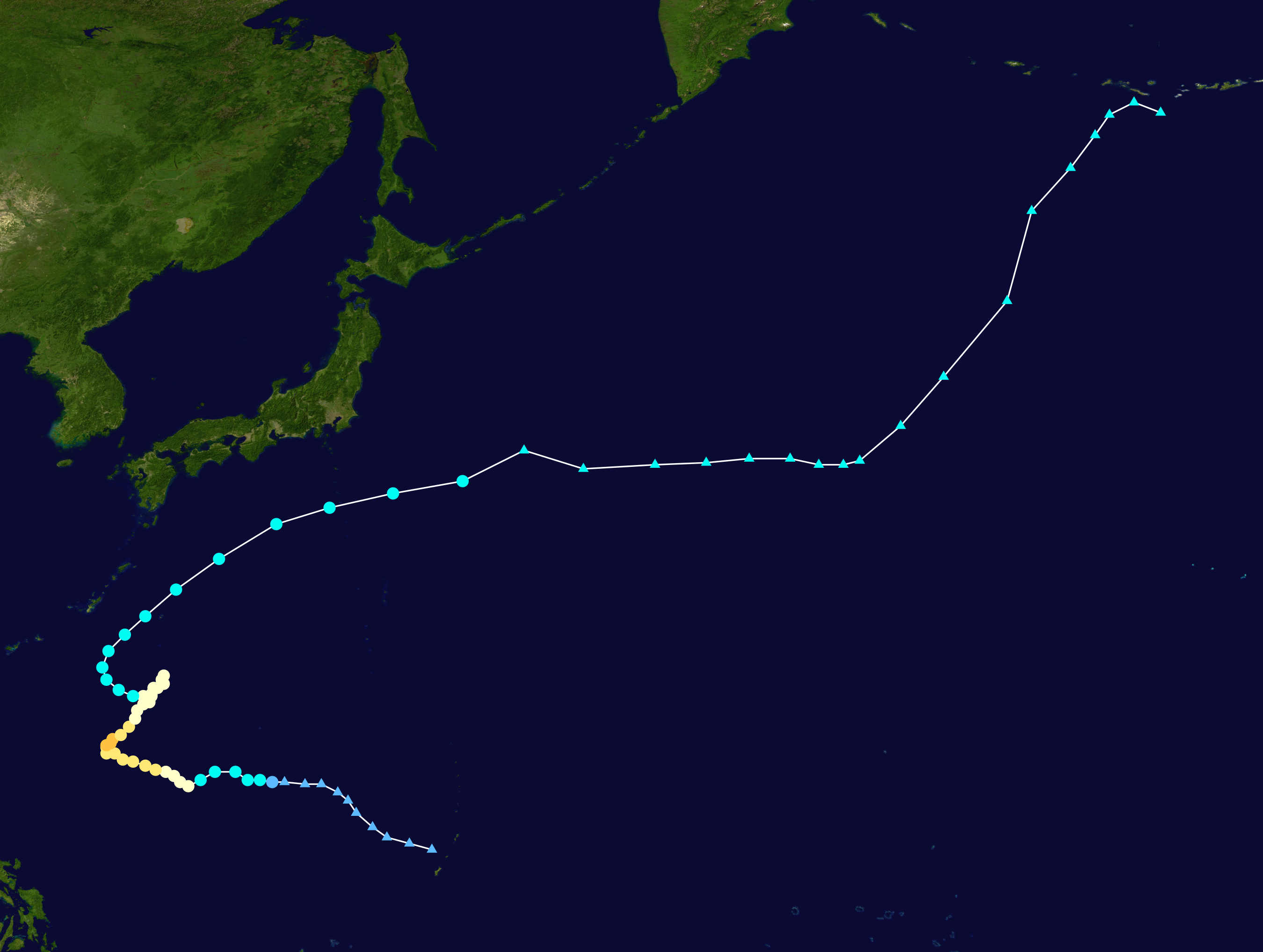 Track map of Typhoon Prapiroon of the 2012 Pacific typhoon season. The points show the location of the storm at 6-hour intervals. The colour represents the storm's maximum sustained wind speeds as classified in the Saffir–Simpson scale (see below), and the shape of the data points represent the nature of the storm, according to the legend below. Saffir–Simpson scale Tropical depression≤38 mph≤62 km/h Category 3111–129 mph178–208 km/h Tropical storm39–73 mph63–118 km/h Category 4130–156 mph209–251 km/h Category 174–95 mph119–153 km/h Category 5≥157 mph≥252 km/h Category 296–110 mph154–177 km/h Unknown Storm type Tropical cyclone Subtropical cyclone Extratropical cyclone / Remnant low / Tropical disturbance / Monsoon depression